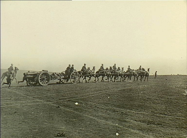 Mesopotamia. c. 1918. A British Army six inch howitzer moving forward towed by a team of ten horses.